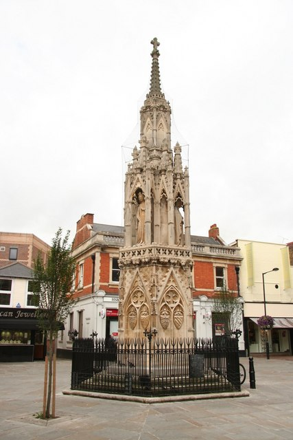 Waltham Cross One of the three remaining of the original 12 Eleanor crosses erected by King Edward I to mark the overnight resting places of the funeral cortege of Queen Eleanor, following her death in Harby on November 28th 1290. Architecturally, it follows the same design as the cross at Northampton and the lost crosses of Cheapside and Charing in London, though more Decorated in style. Hexagonal in plan, it rises through diminishing stages of blind tracery with heraldic motifs, through a second tier of six elaborate pinnacled canopies. These house three statues of Eleanor in traditional pose by master mason Alexander of Abingdon, to a third hexagonal tier of blind tracery surmounted by a cross. Waltham Cross has somehow miraculously survived more than 700 years of adversity including Civil War, encroachment by adjacent buildings, road schemes for turnpikes, the misguided intentions of Victorian restorations and bombs dropped during the Second World War. It now stands much restored and rather ignominiously as the centrepiece of a modern pedestrian shopping area.